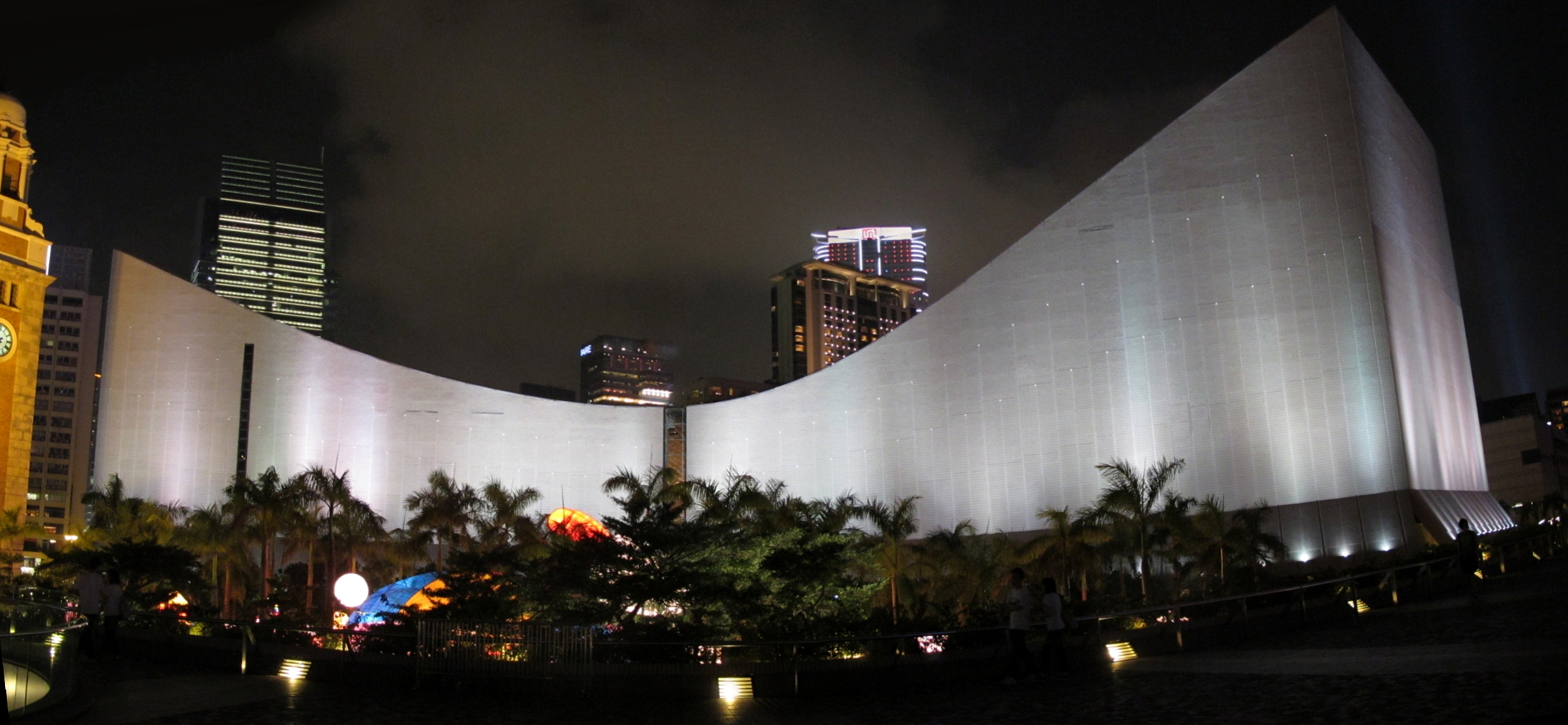 Hong Kong Cultural Centre Night View